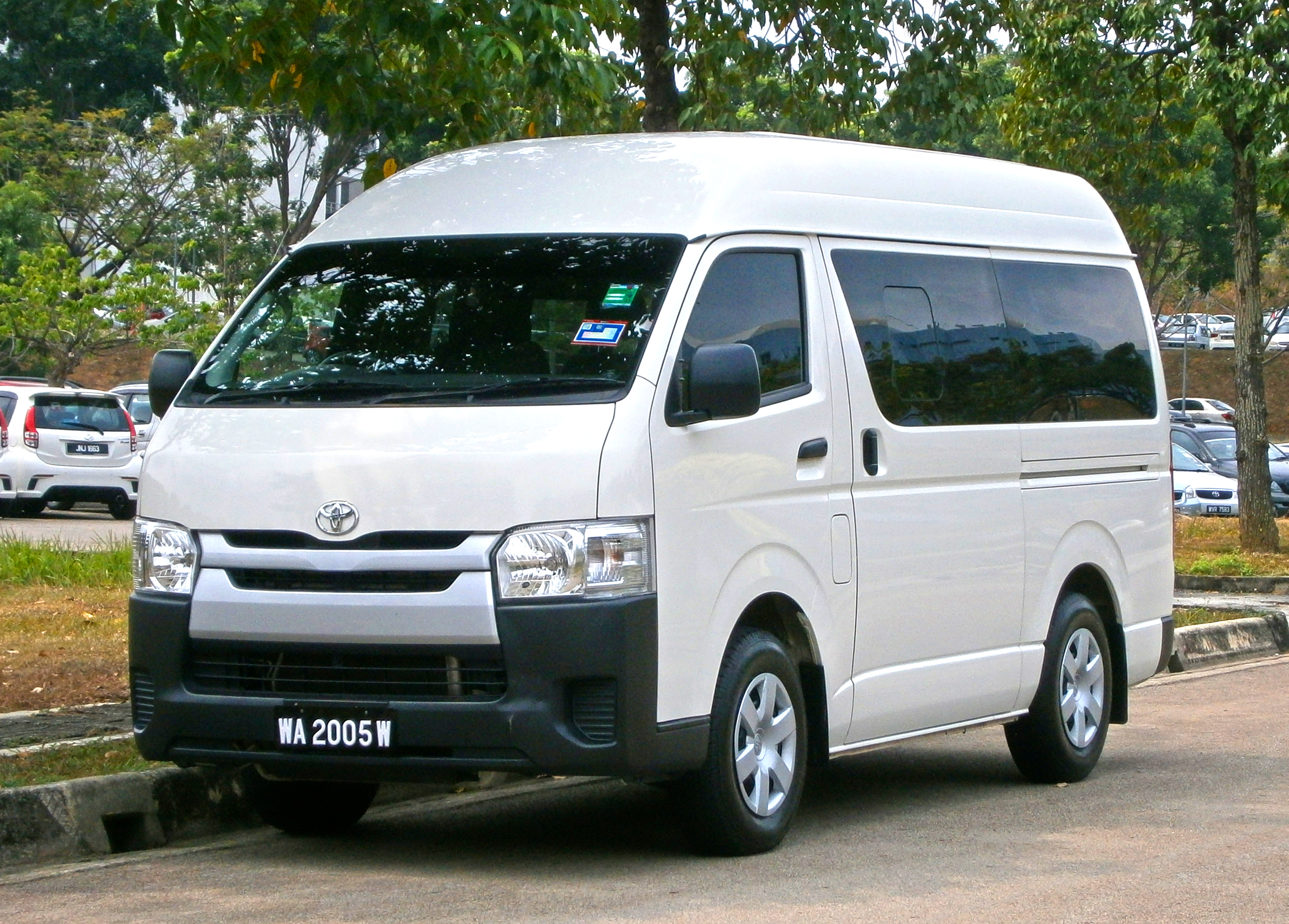 2014 Toyota HiAce Window Van